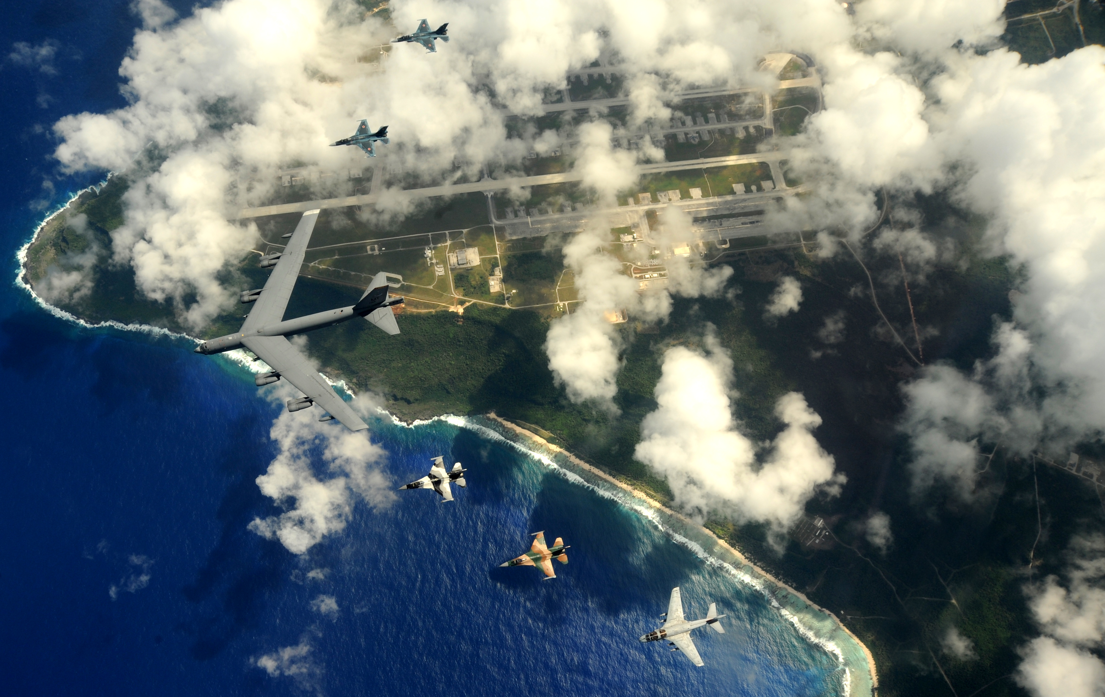 A B-52 Stratofortress from the 23rd Expeditionary Bomb Squadron leads a formation of Japanese Air Self Defense Force F-2s from the 6th Squadron, U.S. Air Force F-16 Fighting Falcons from the 18th Aggressor Squadron, and a U.S. Navy EA-6B Prowler from Electronic Attack Squadron (VAQ) 136 over Guam Feb. 10, 2009, during Cope North 09-1. Cope North 09-1 is a joint and bilateral exercise to enhance air operations in defense of Japan.